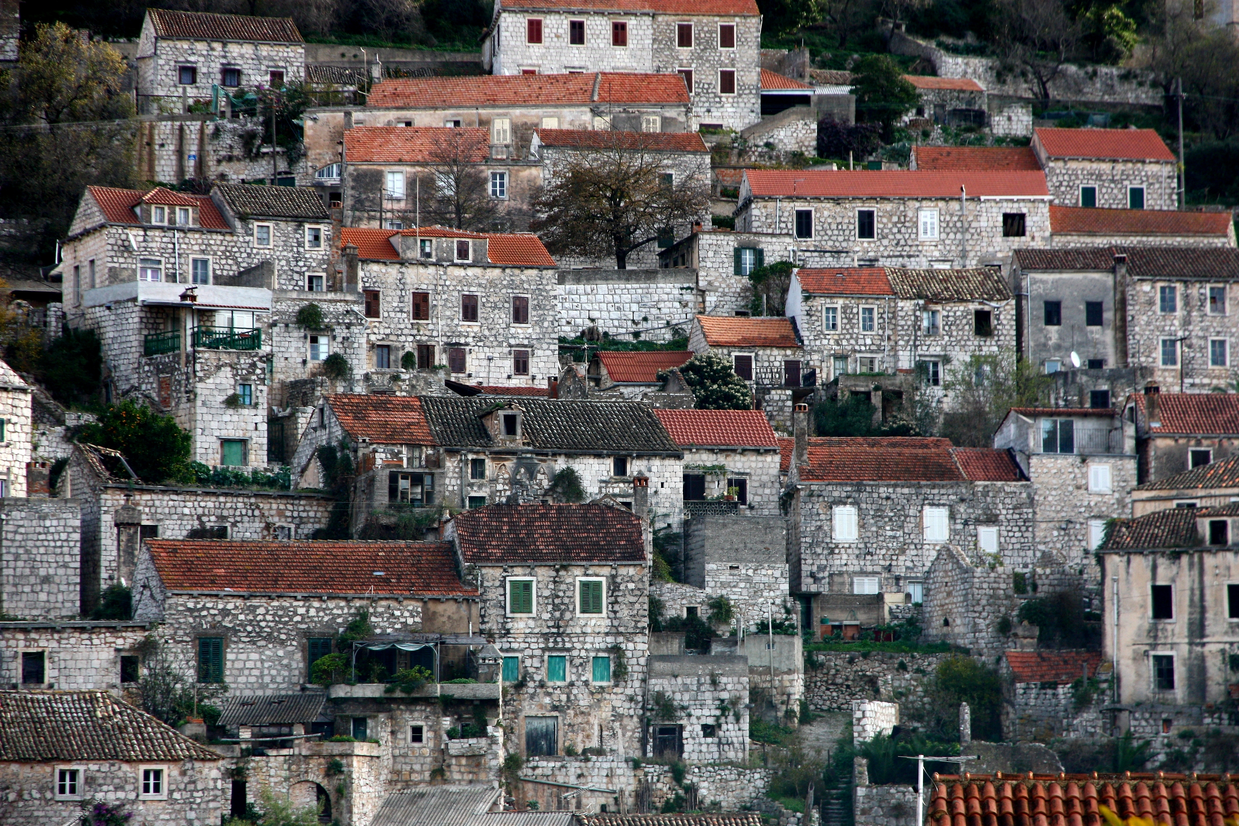 Lastovo village, Lastovo islands nature park This is a a photo of a natural area in Croatia with ID: PP03